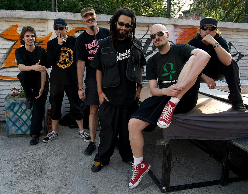 My image....